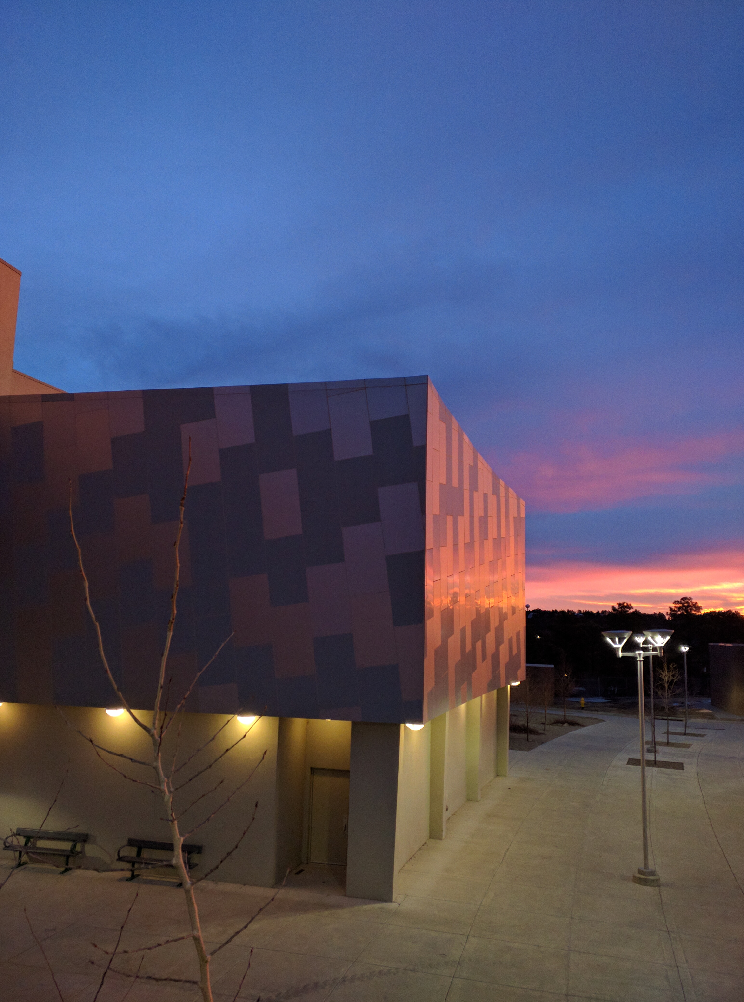 Photo of TFA/LAHS campus